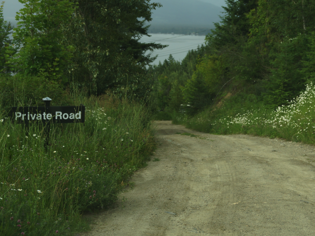 Example of a Private Road in Canada